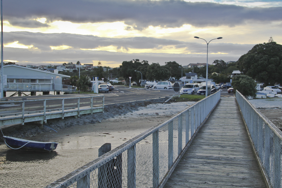 The sun setting over the wharf at the tip of the Omokoroa Peninsula.